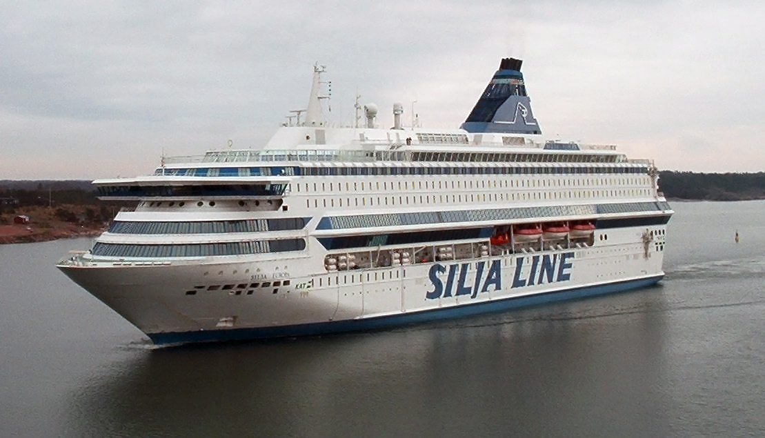 M/S Silja Europa arriving at Mariehamn